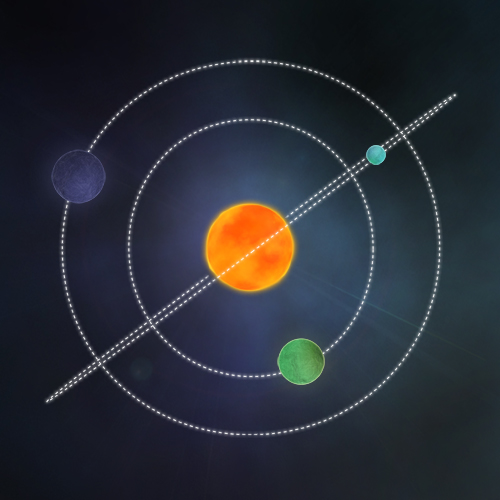 Official Zooniverse avatar for Planet Hunters